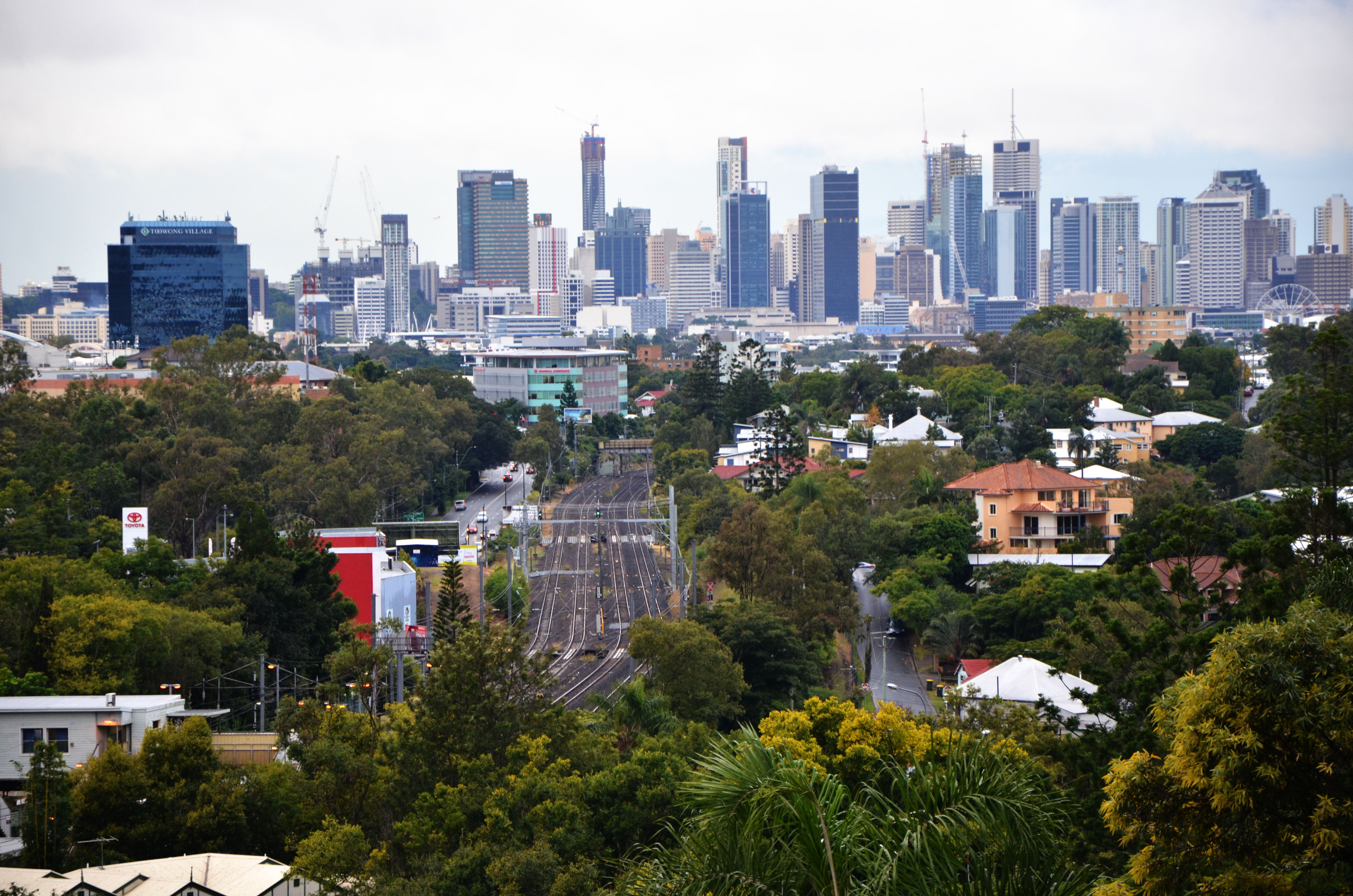 Looking towards the Brisbane CBD from Taringa.